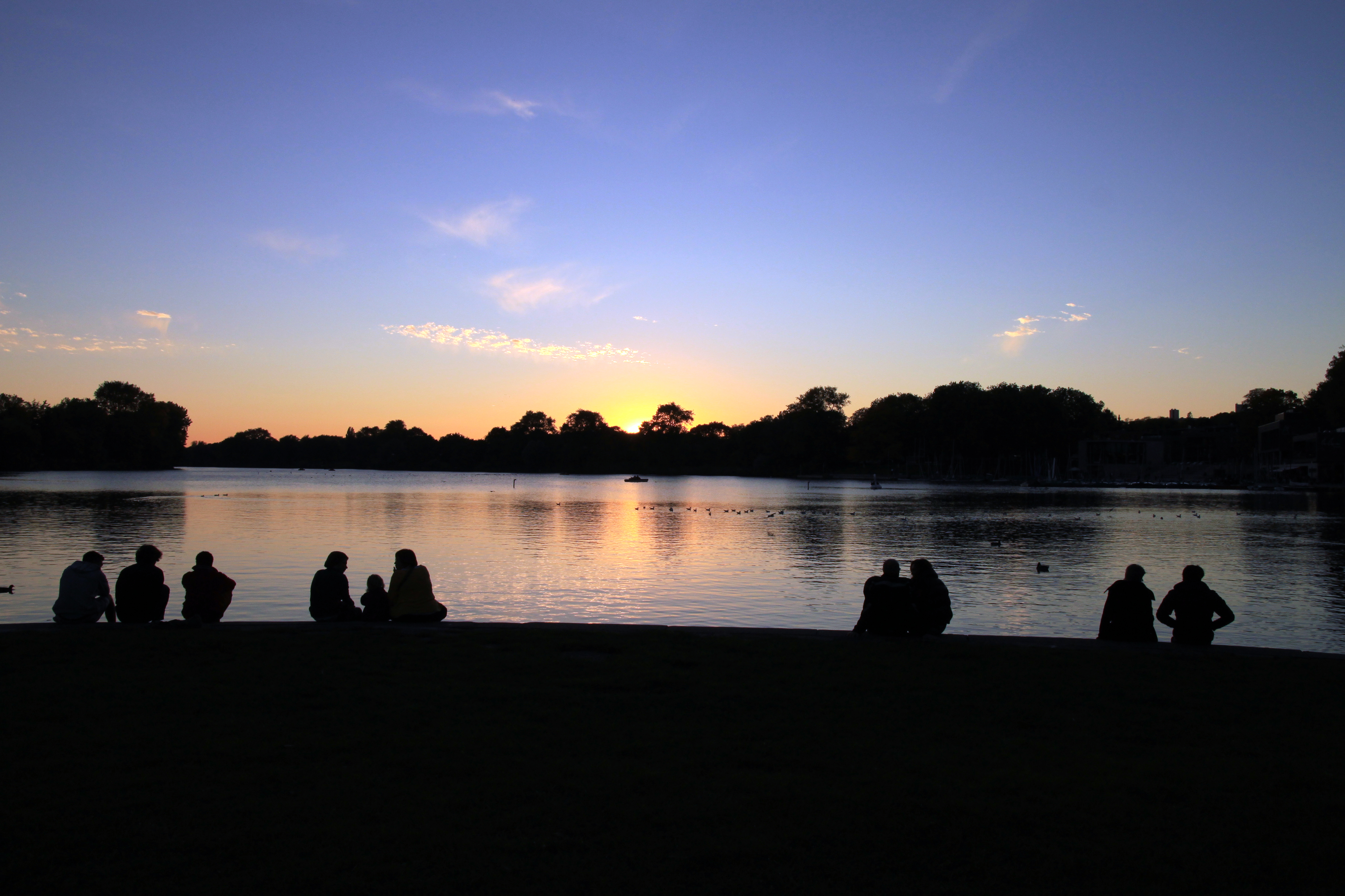 Aasee